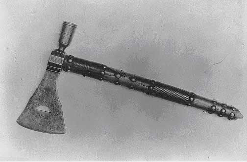 Tomahawk produced by the Hudson' Bay Company in the 1830s, listed on the FBI's database of stolen art: [1]